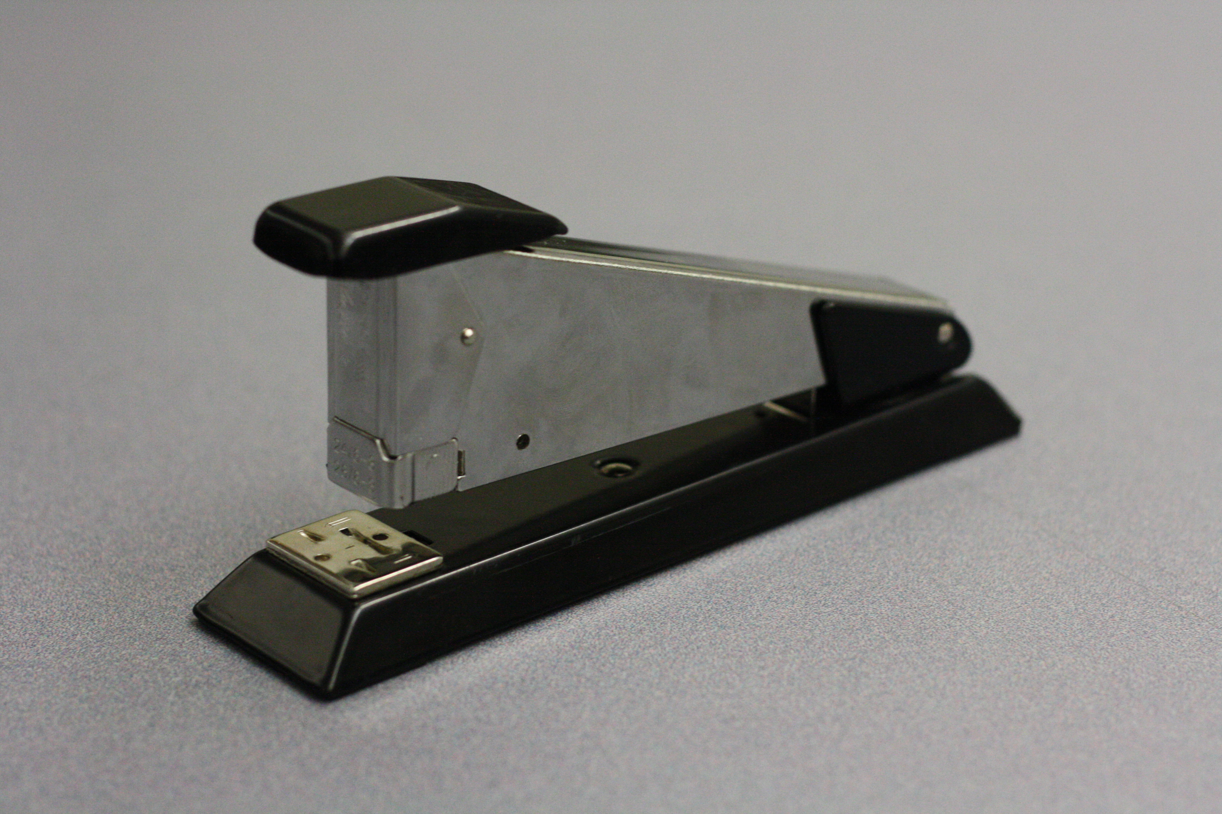 A common school stapler at DHS